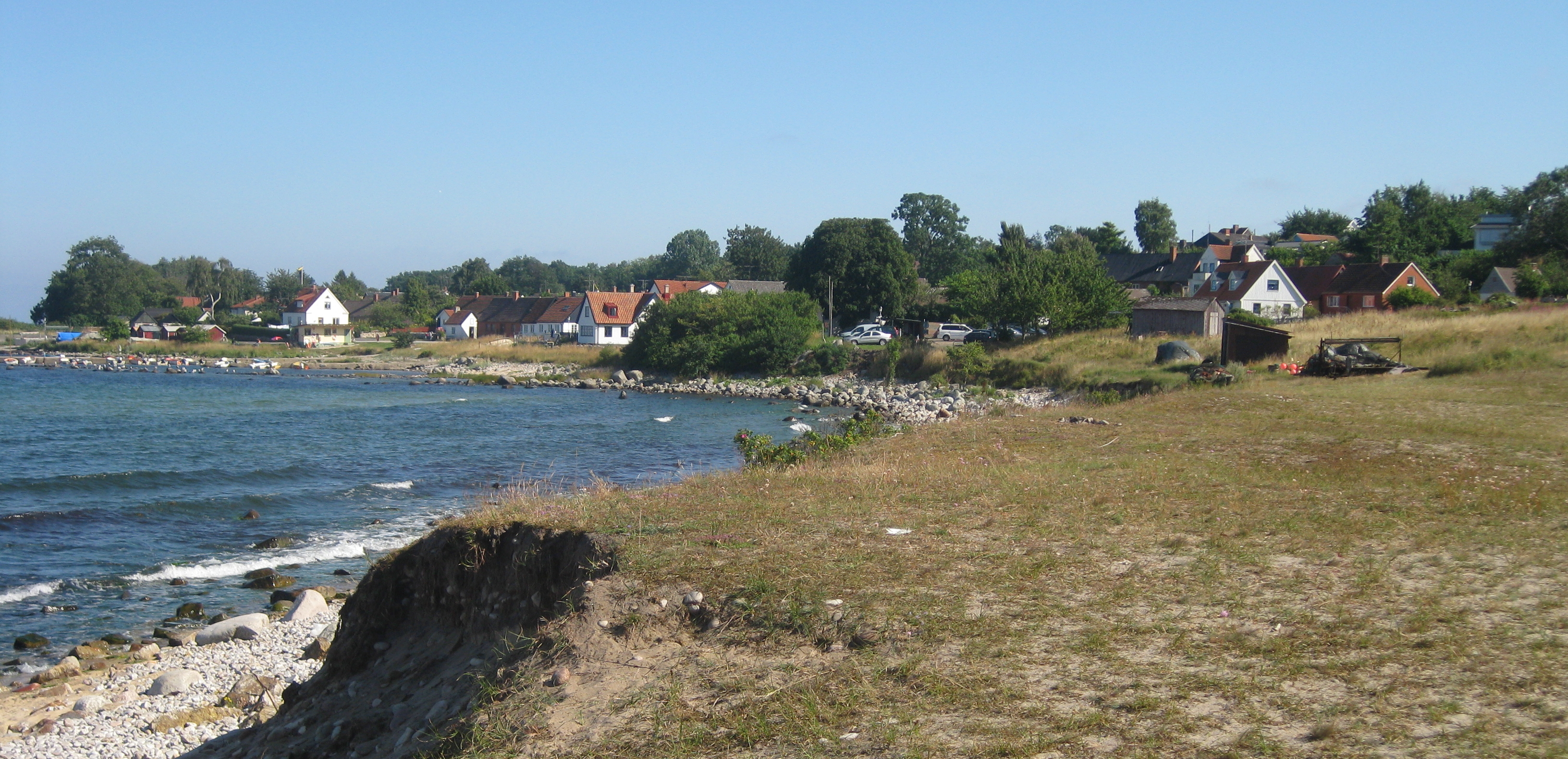 Vik, view from north